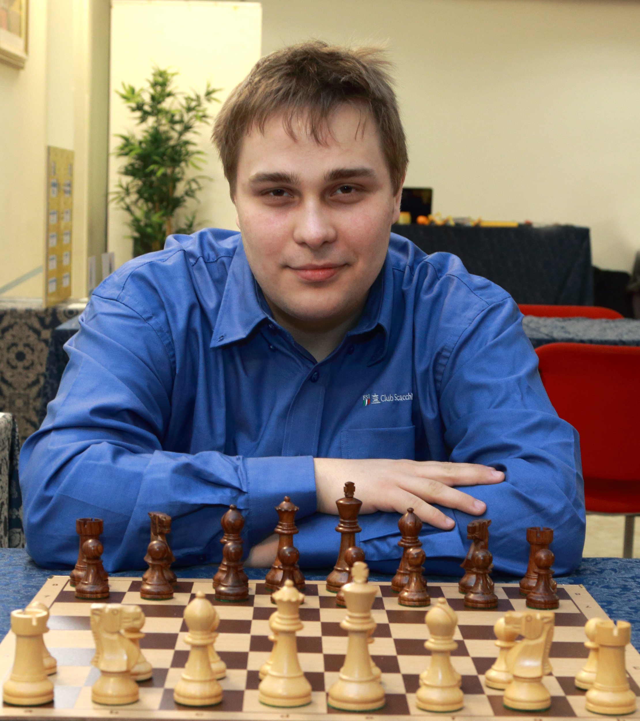 Peter Prohaszka, Hungarian chess grandmaster